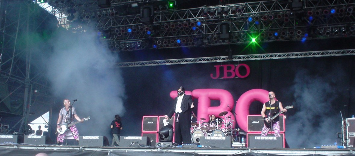 a JBO concert photo